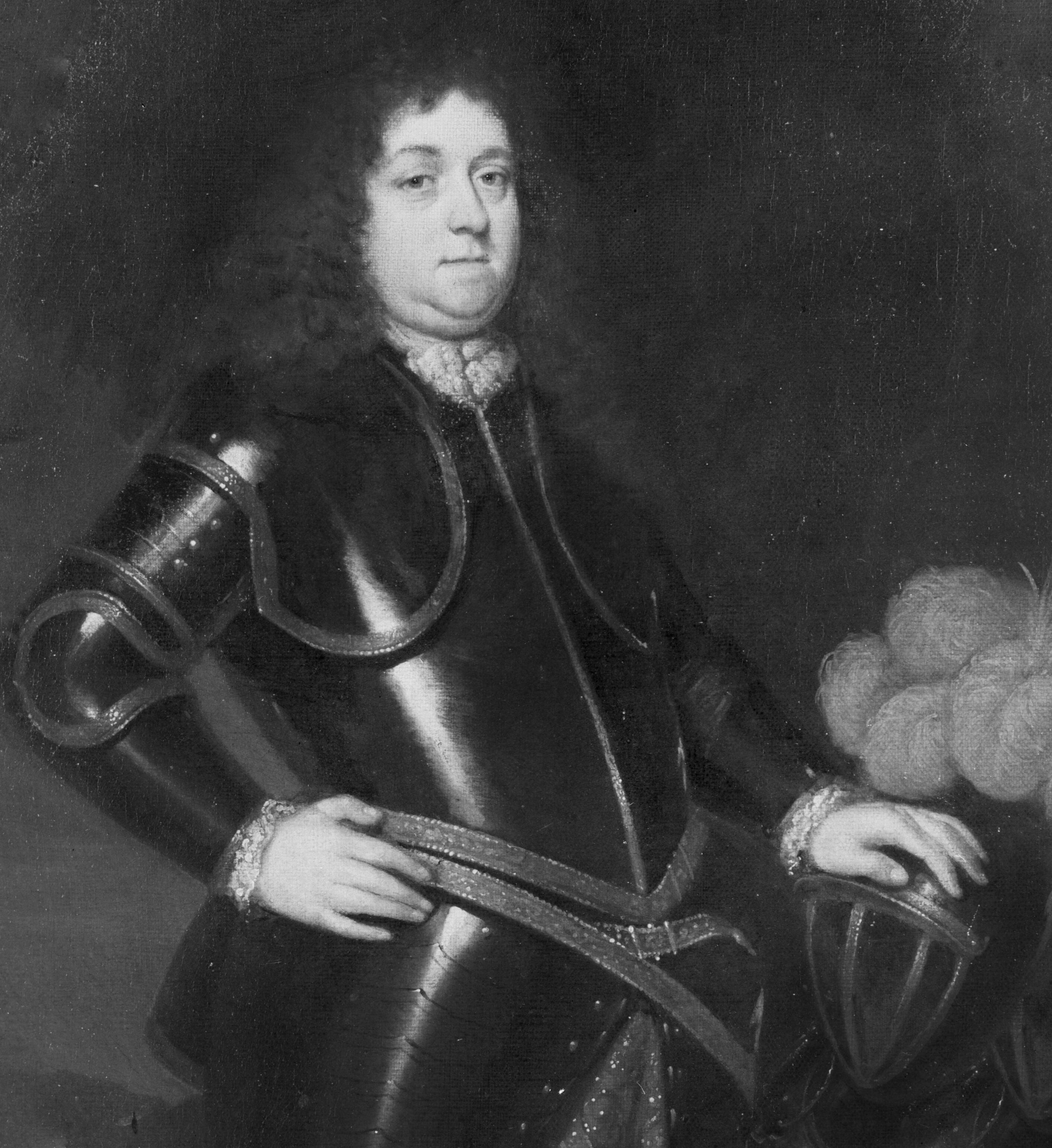 Unico Ripperda tot Weldam